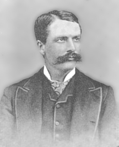 Portrait photograph of Warder with bushy mustache, boldly-cut suit with matching waistcoat, stock and wing collar.